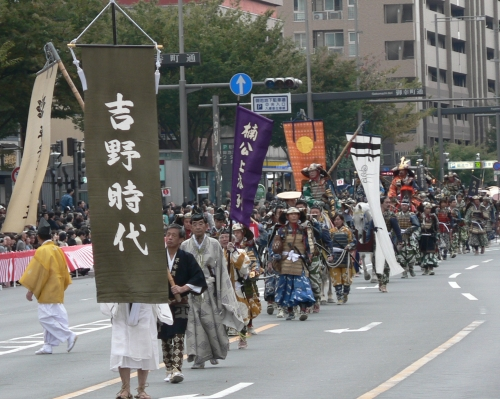 Jidai Matsuri which is a Bon festival in Kyoto, Japan.